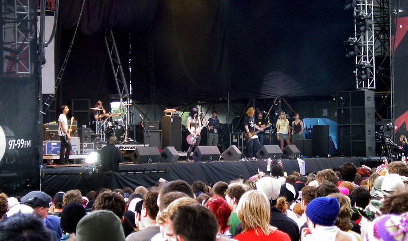 The Distillers.